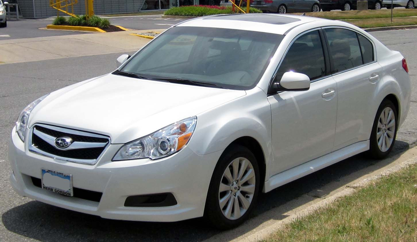 2010-2012 Subaru Legacy photographed in Silver Spring, Maryland, USA.